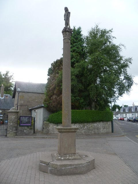 Longforgan mercat cross, Main Street